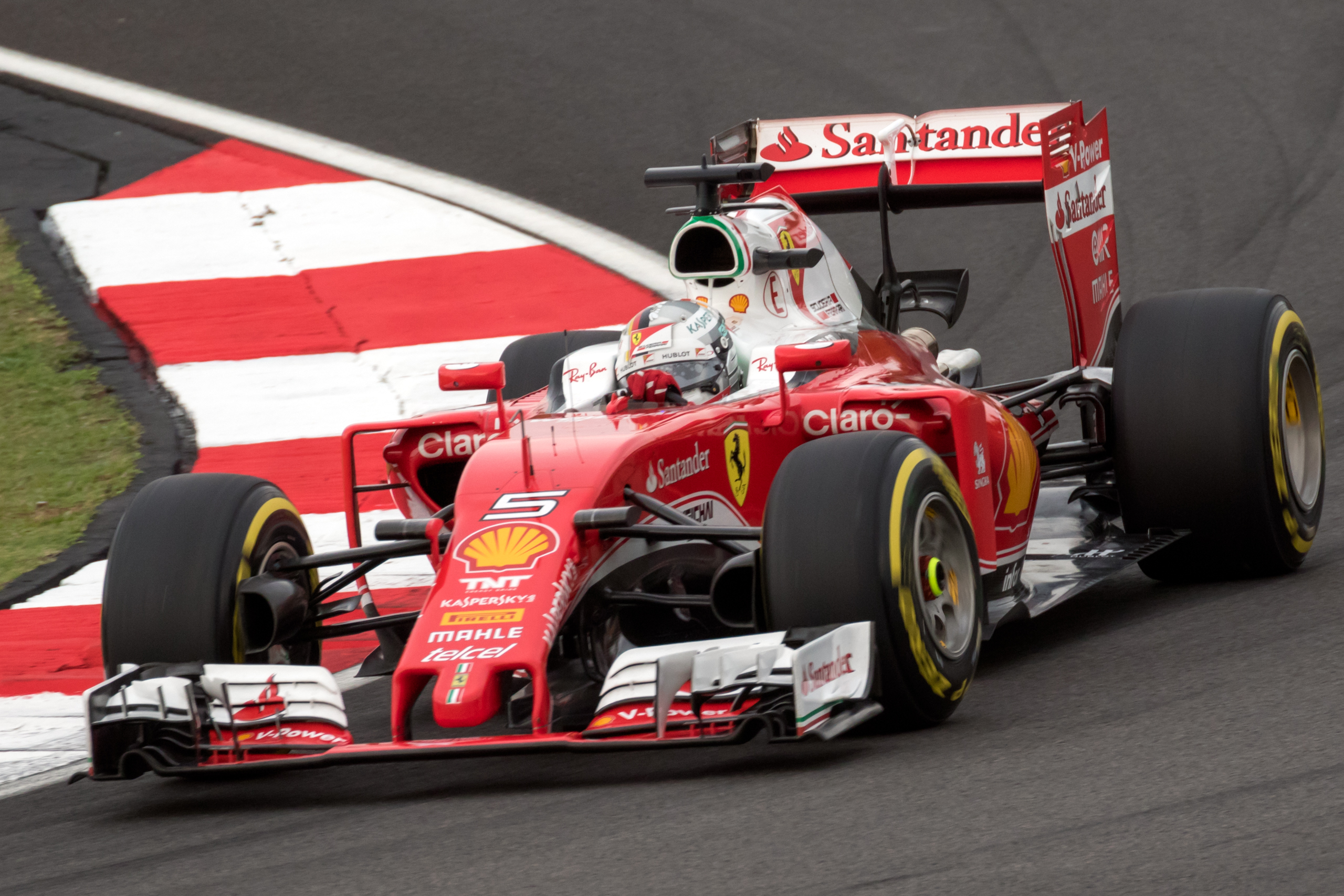 Formula One 2016 Rd.16 Malaysian GP: Kimi Räikkönen (Ferrari)